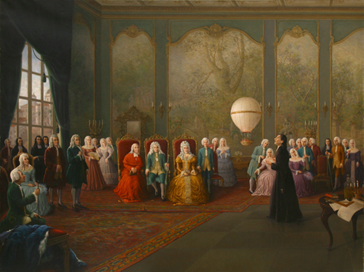 Bartolomeu de Gusmao presenting his invention to the Court of John V